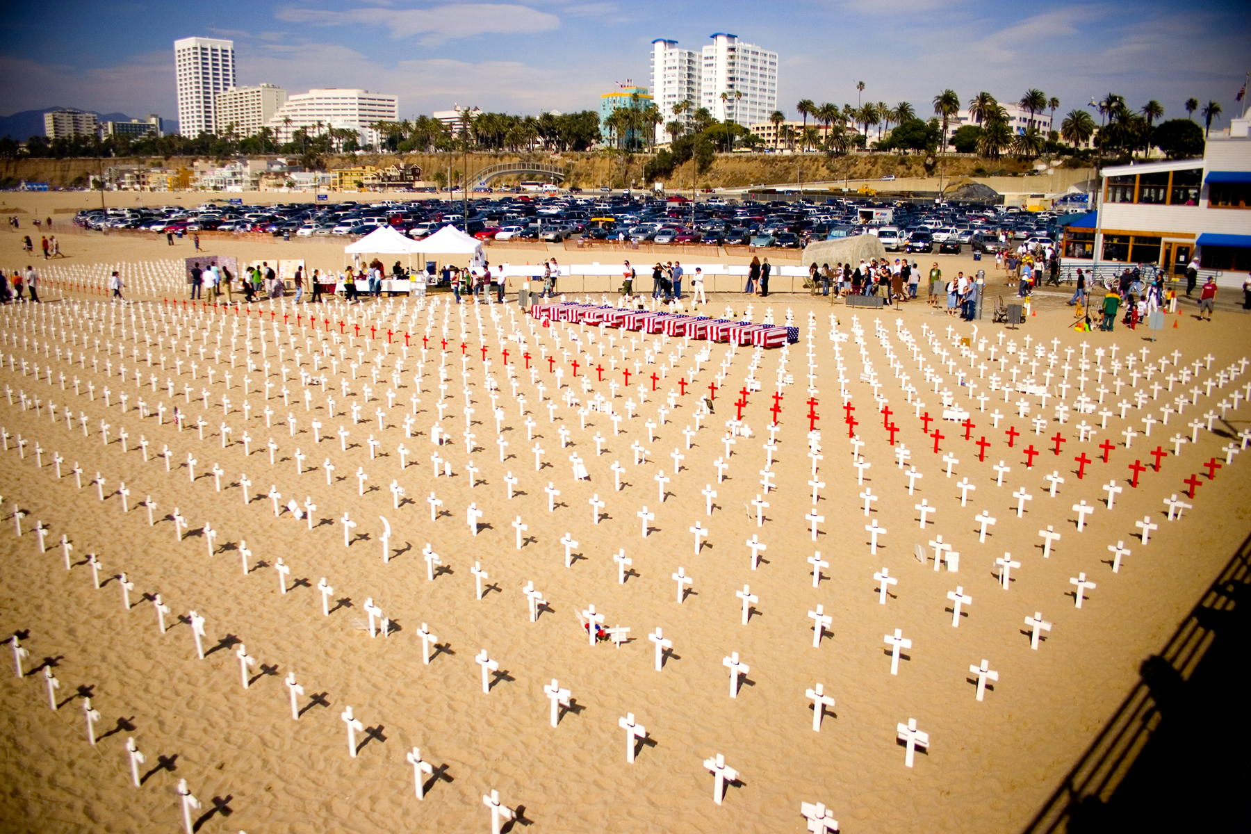 Remembering those we've lost in the Iraq War. Santa Monica Beach, California.